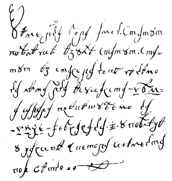 This is from a Google scan of a page from Ivan Berčić's 1860 Bukvar. It has been modified for use on Wikisource using GIMP.